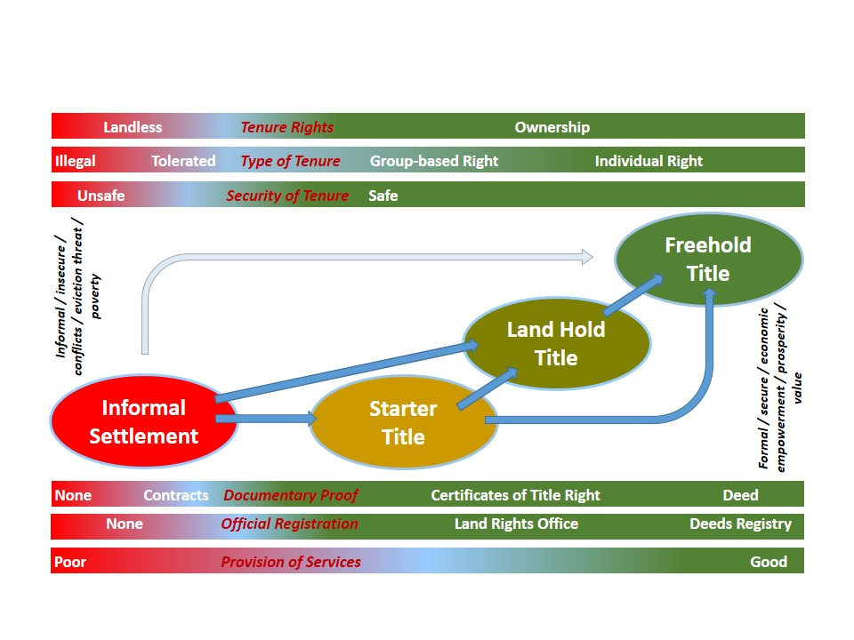 Flexible Land Tenure System Namibia - Continuum of Rights